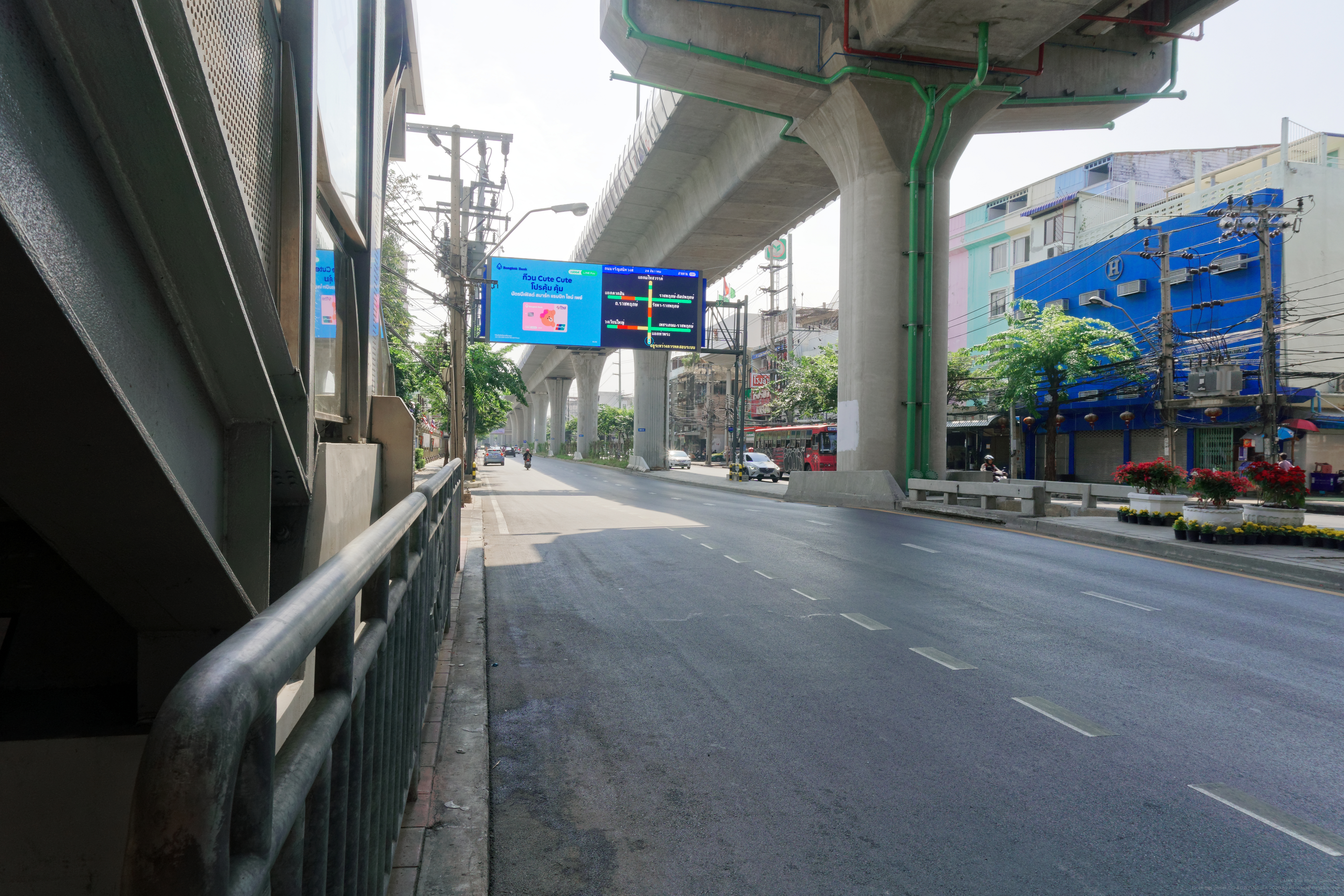 MRT Charan 13 – Charansanitwong road